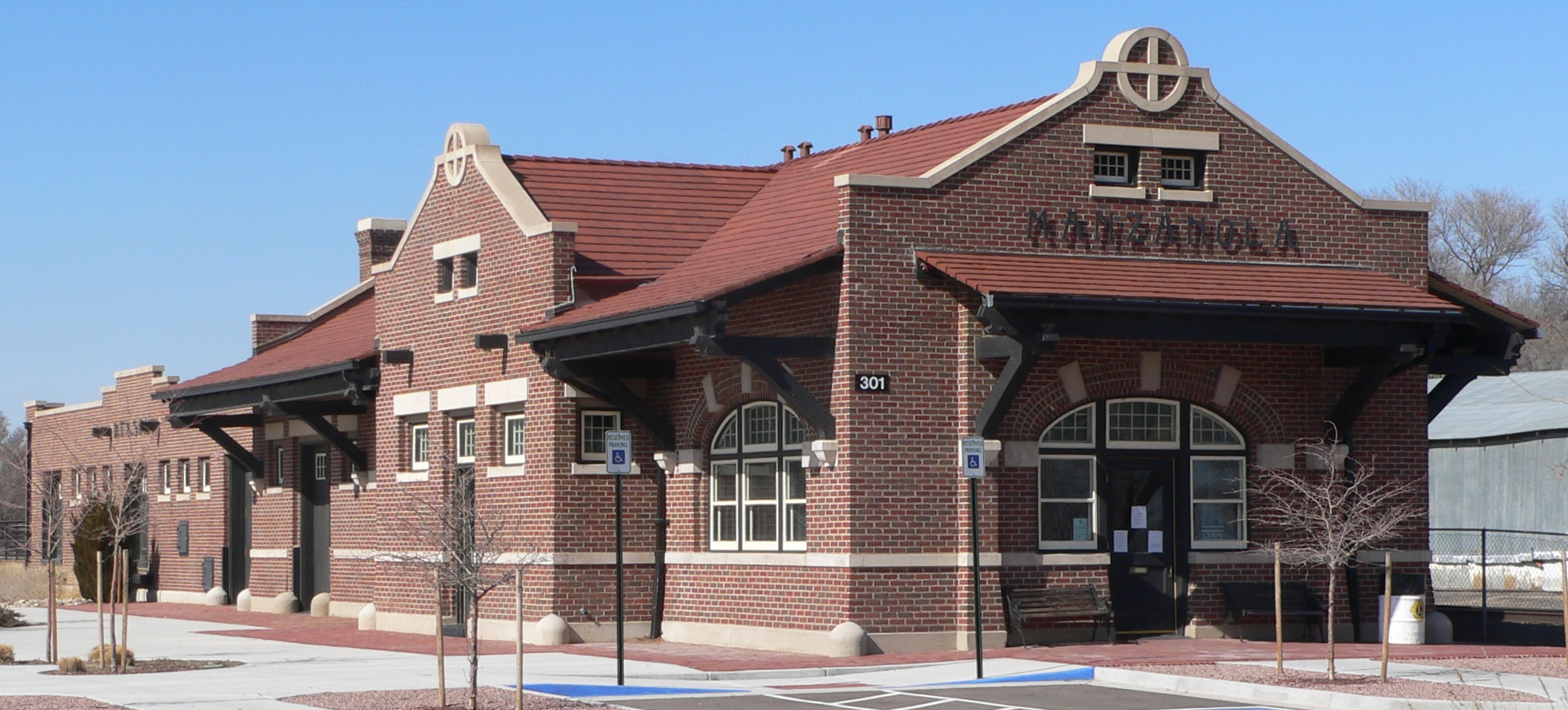 Railway depot, now used as town hall, in Manzanola, Colorado; seen from the southeast. (The building's long axis parallels the railroad tracks, which run WNW-ESE.)